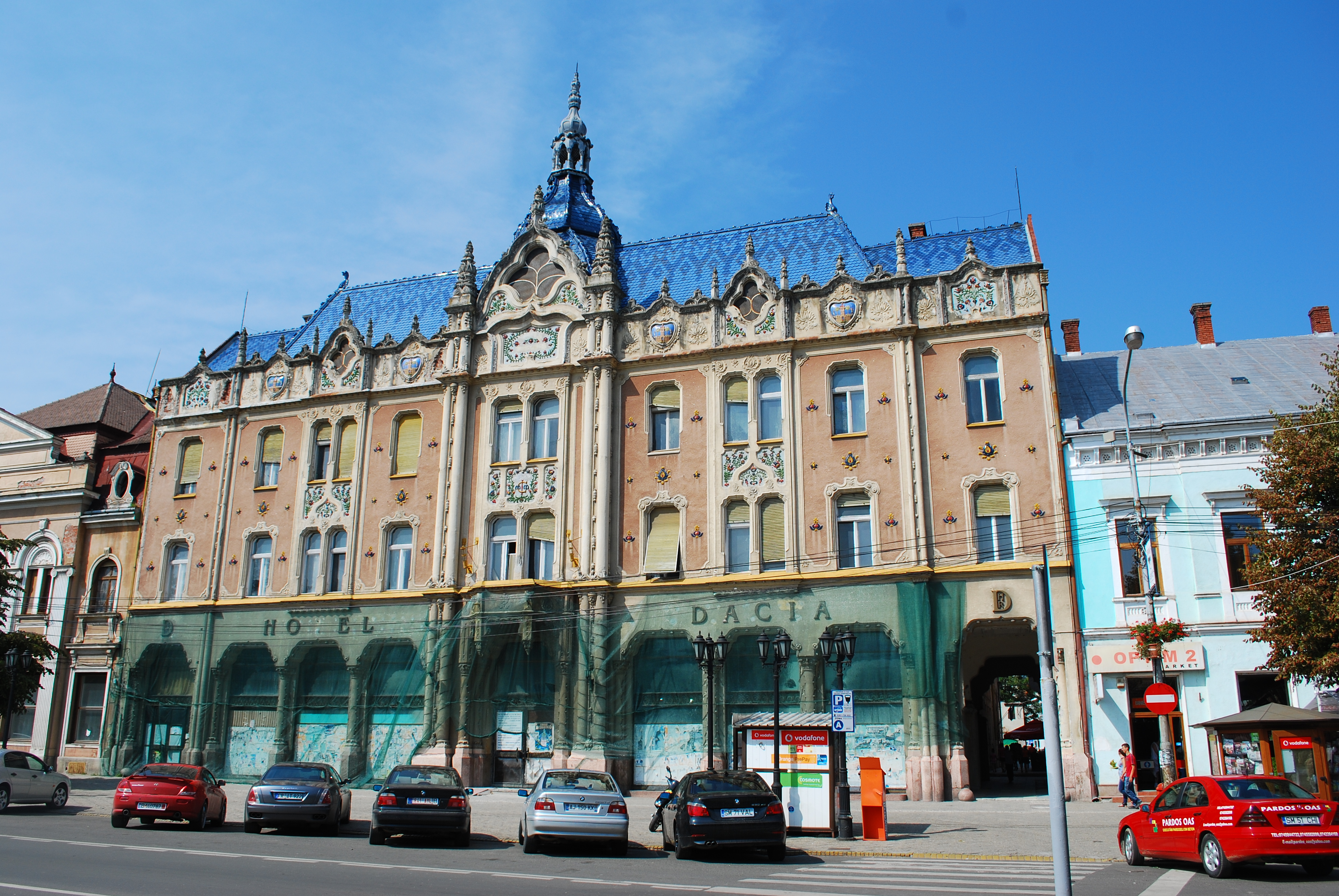 Dacia hotel in Satu Mare, Romania